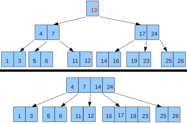 Delete key from B tree